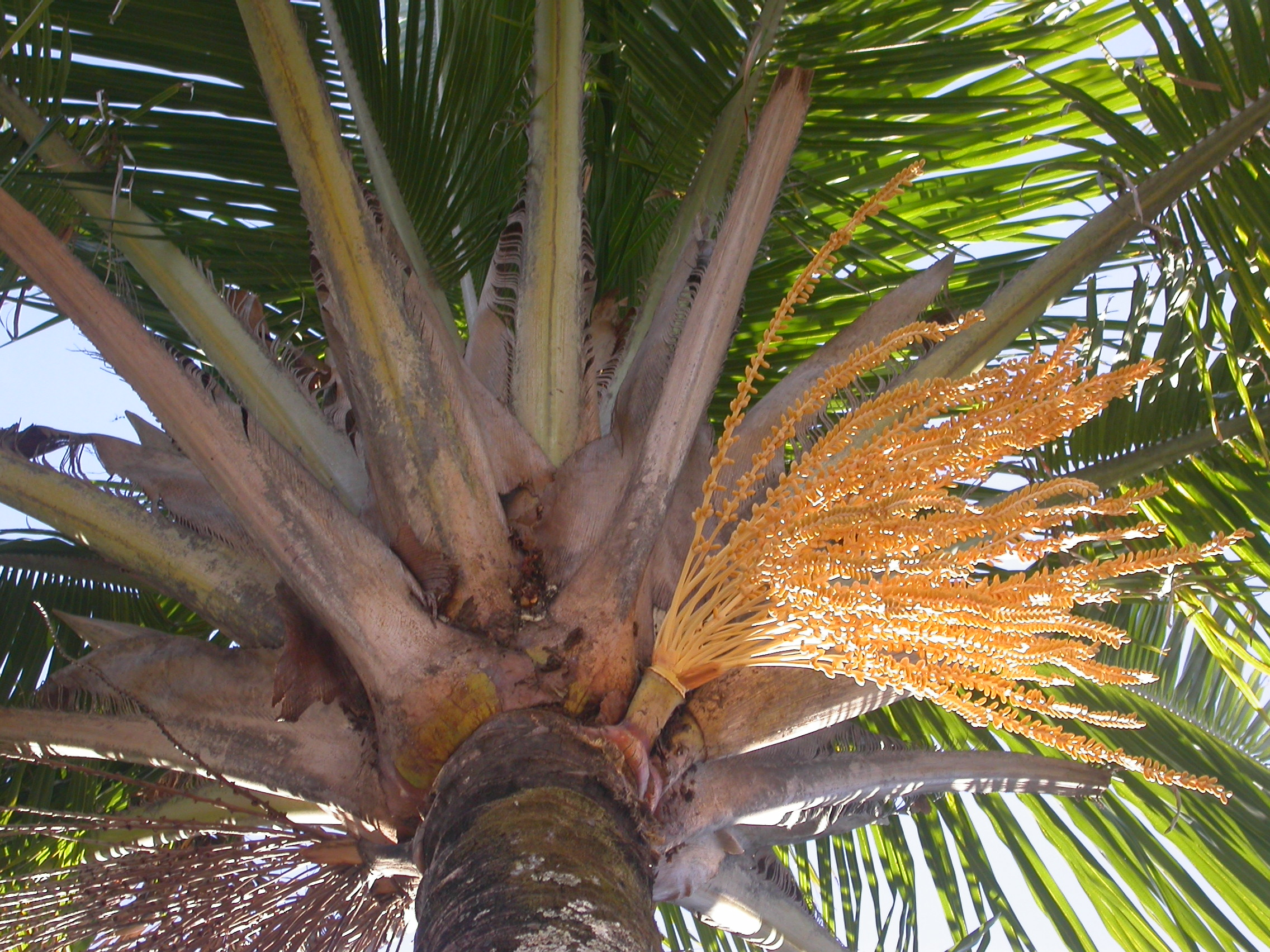 Beccariophoenix alfredii in Flower